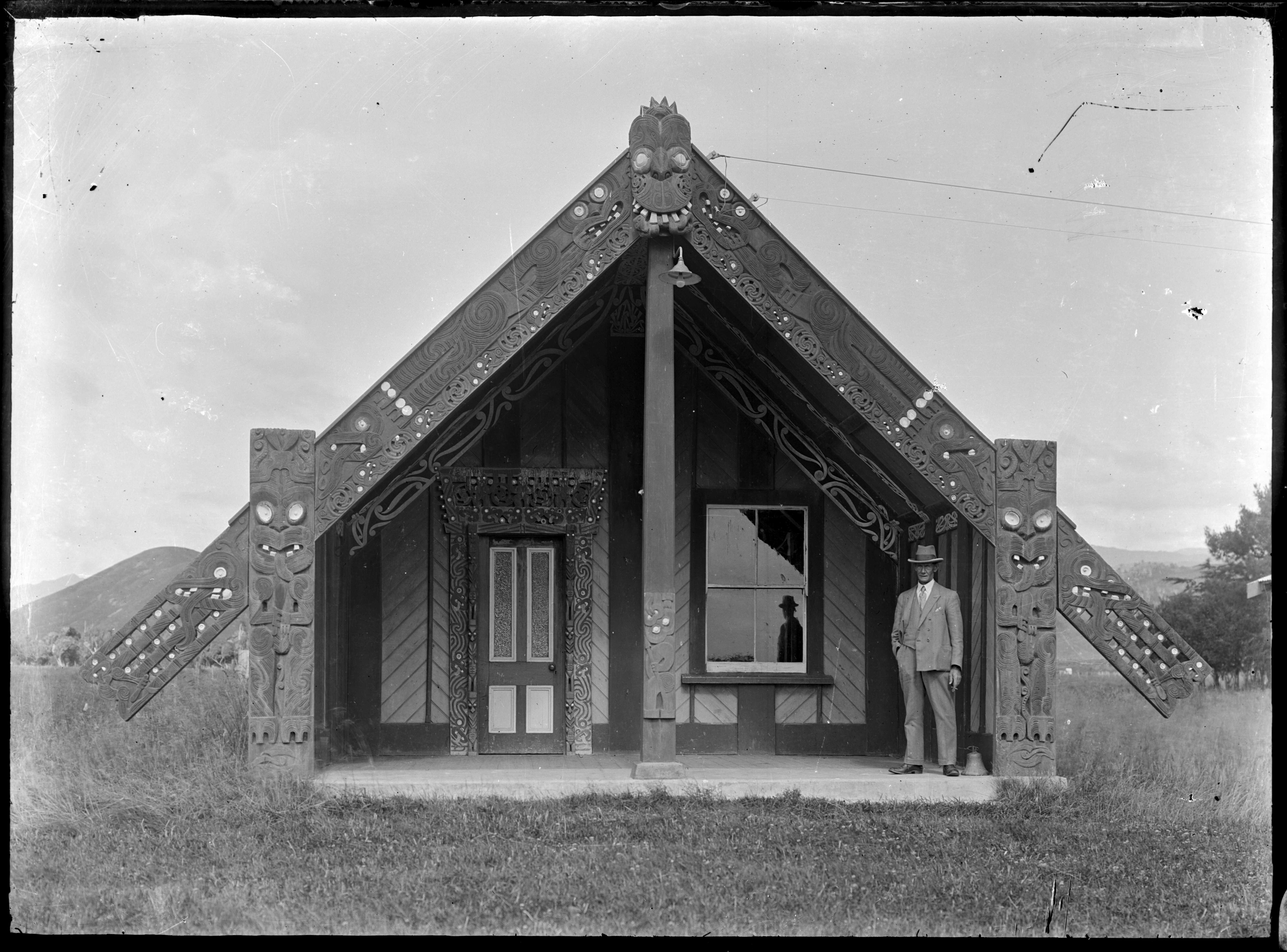 Unidentified Maori meeting house at Ohau. A man, identified as Wally Percival, is standing on the porch. Photographed by Albert Percy Godber, in 1931.